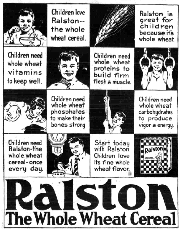 Newspaper ad for Ralston Whote Wheat cereal. Cropped and adjusted with GIMP.